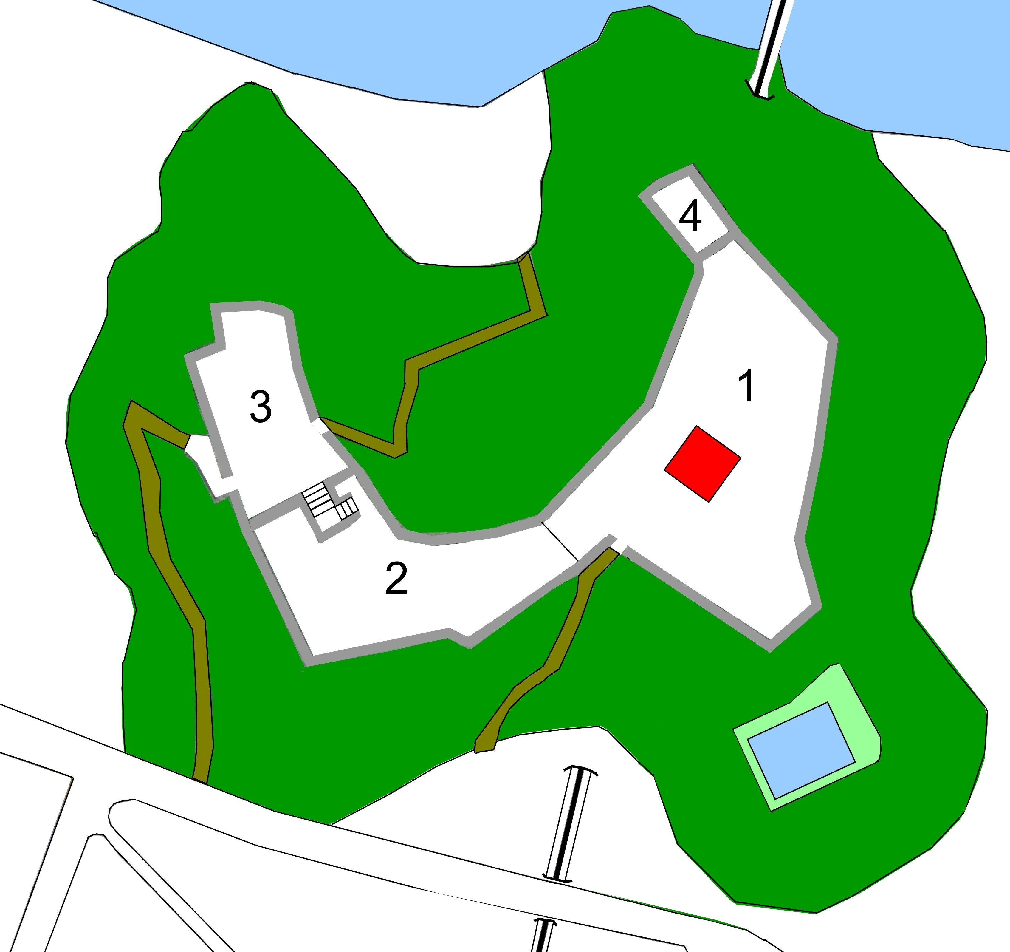 Laxout of Shingû castle at Shingû, Wakayama Prefecture, Japan